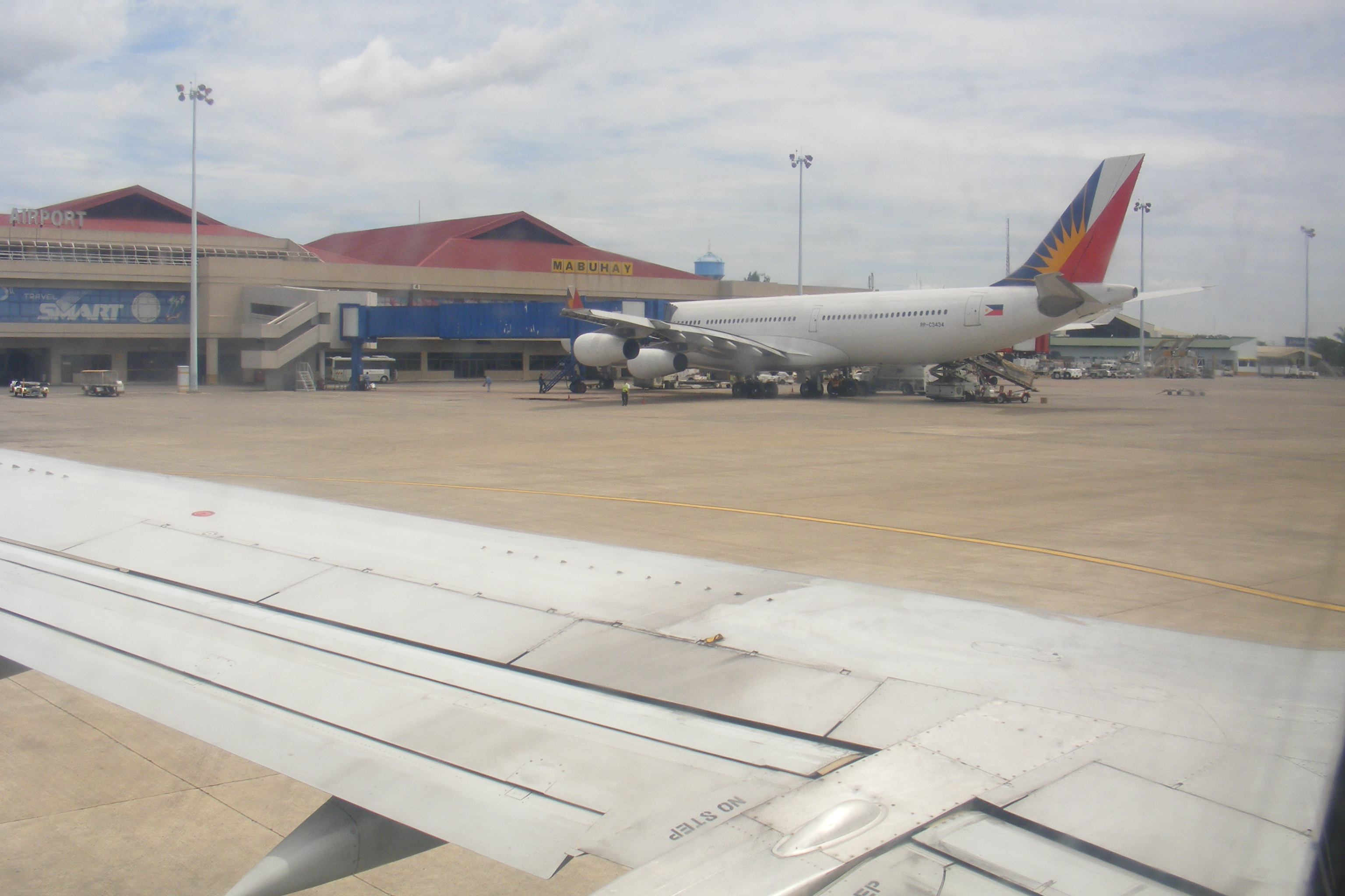 Mactan International